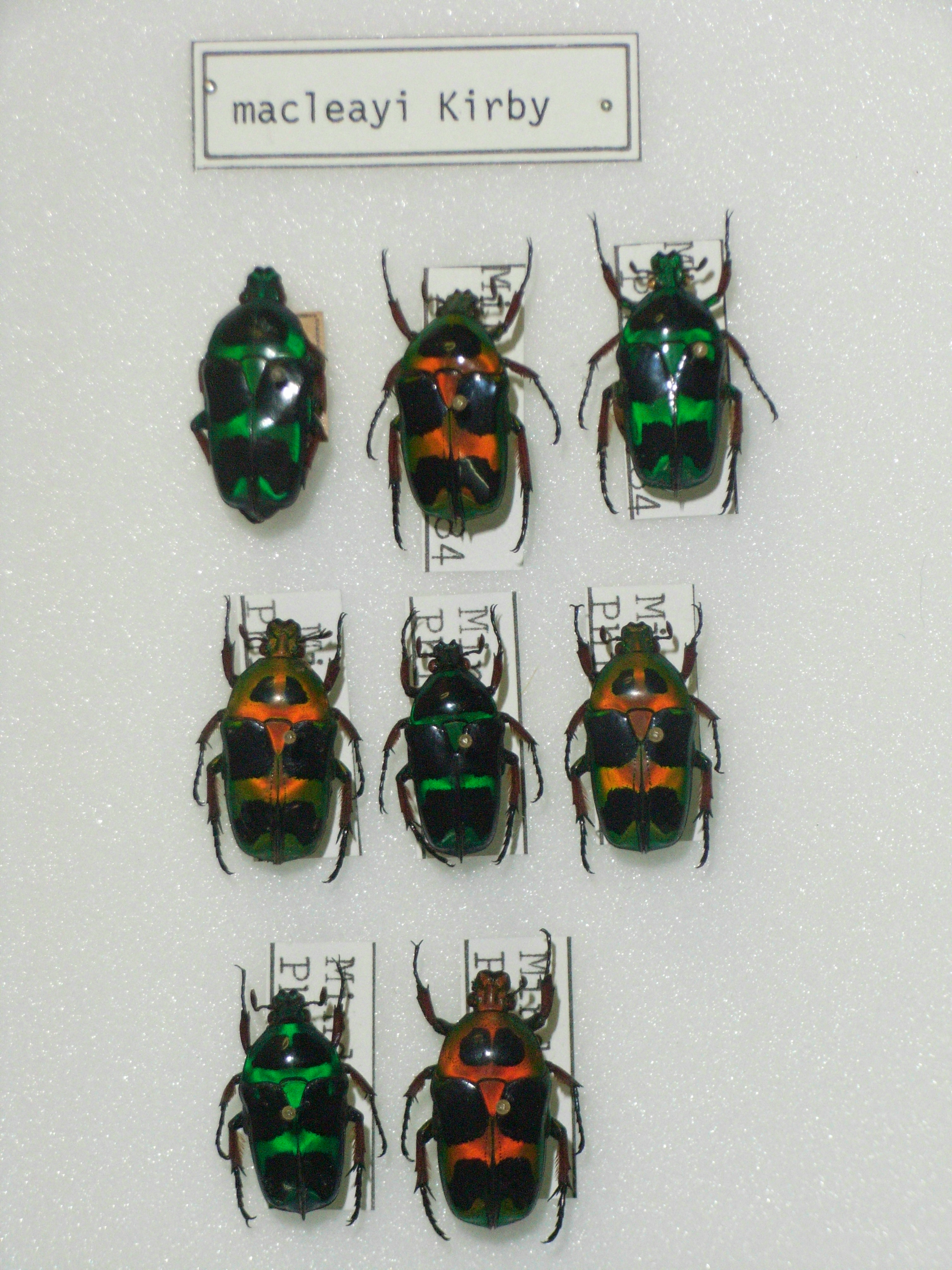 Heterorrhina macleayi Kirby, 1818 Cetoniinae Scarabaeidae Ex coll. Museum Wiesbaden